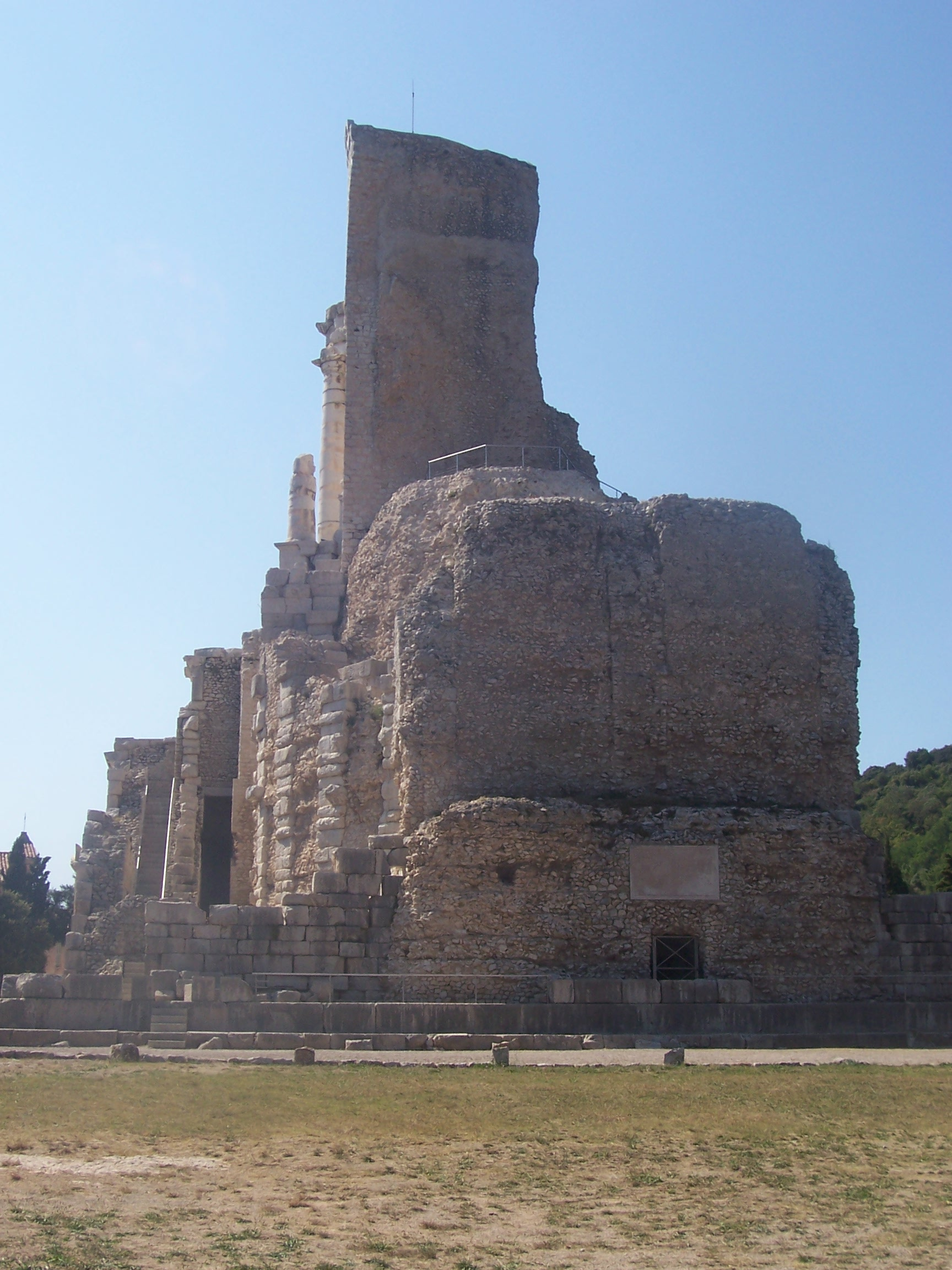 Picture of Trophee des Alpes in La Turbie, France